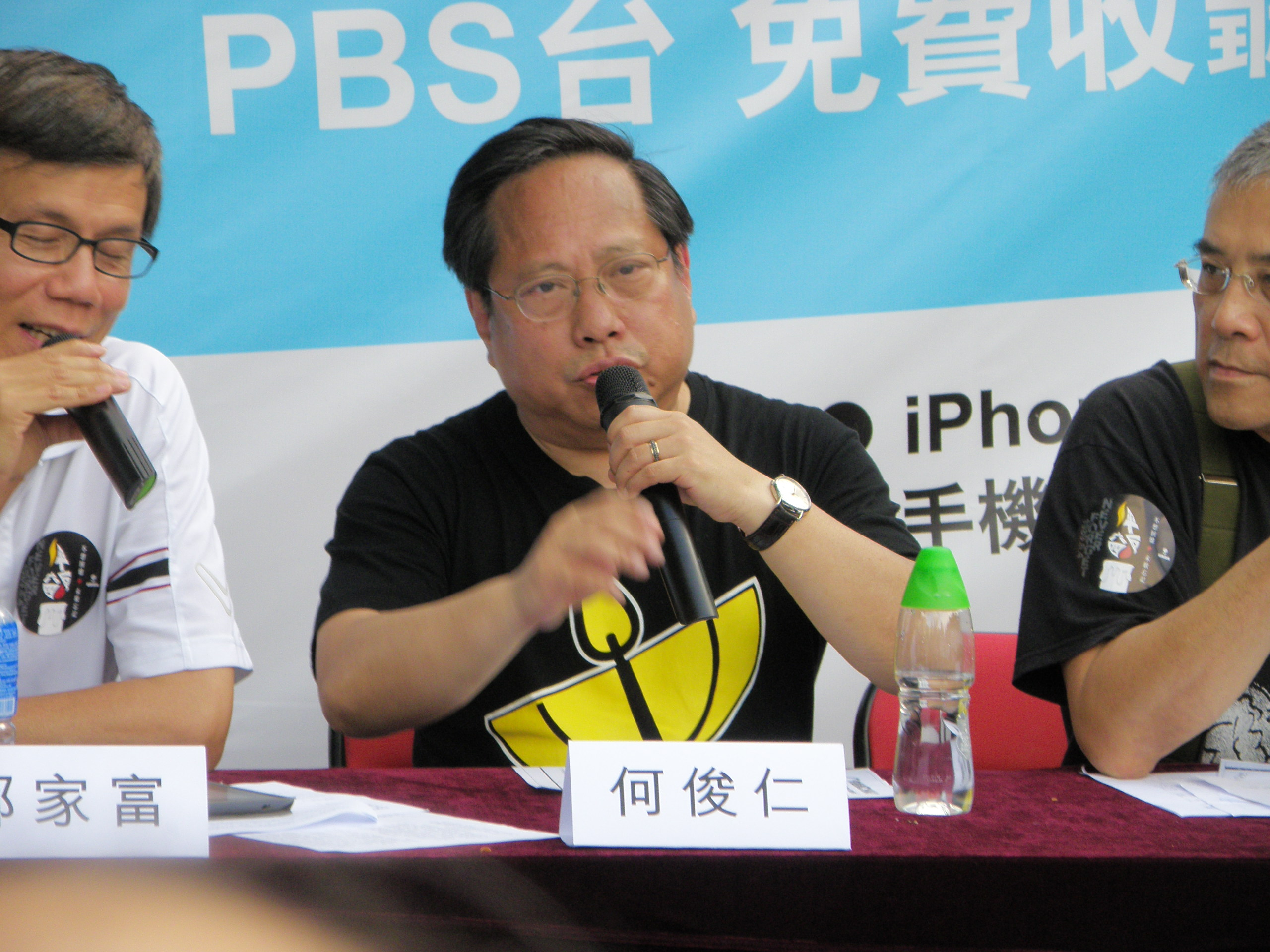 Albert Ho Chun-yan, chairman of the Hong Kong Alliance in Support of Patriotic Democratic Movements in China, Hong Kong.